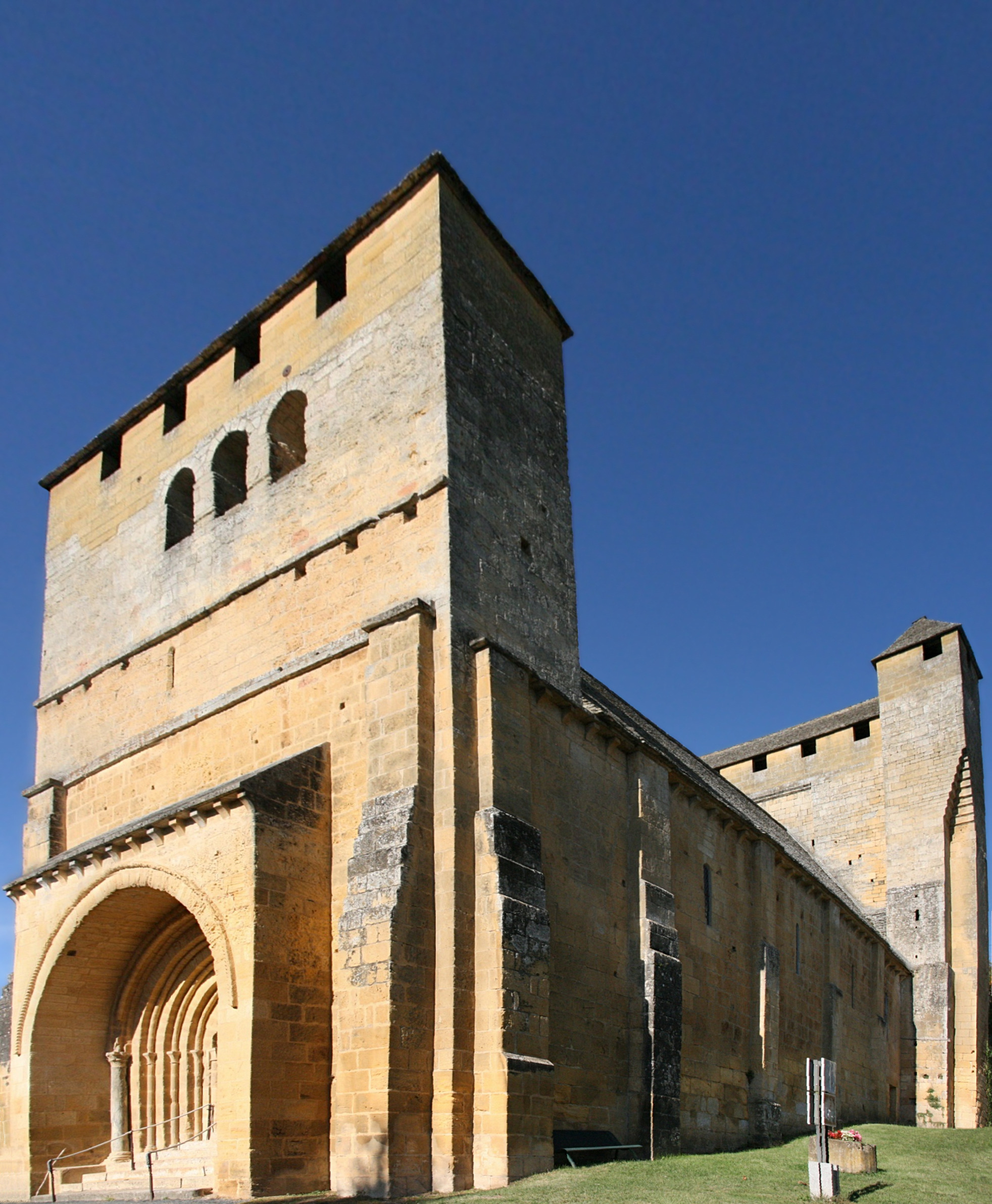 Church-Fortress of Tayac, Les Eyzies-de-Tayac-Sireuil, Dordogne, France.